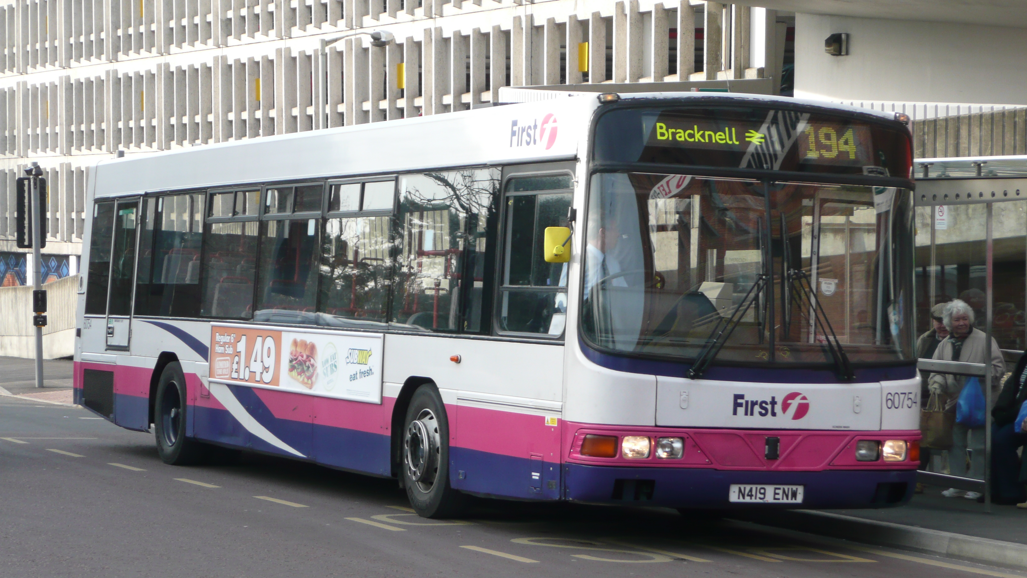 First Berkshire & The Thames Valley's 60754 (N419 ENW), a Scania L113CRL/Wright Axcess-Ultralow, in Camberley on route 194.